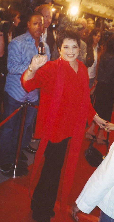 Liza Minnelli at the 2005 Toronto International Film Festival promoting Elizabethtown.Elizabethtown_019